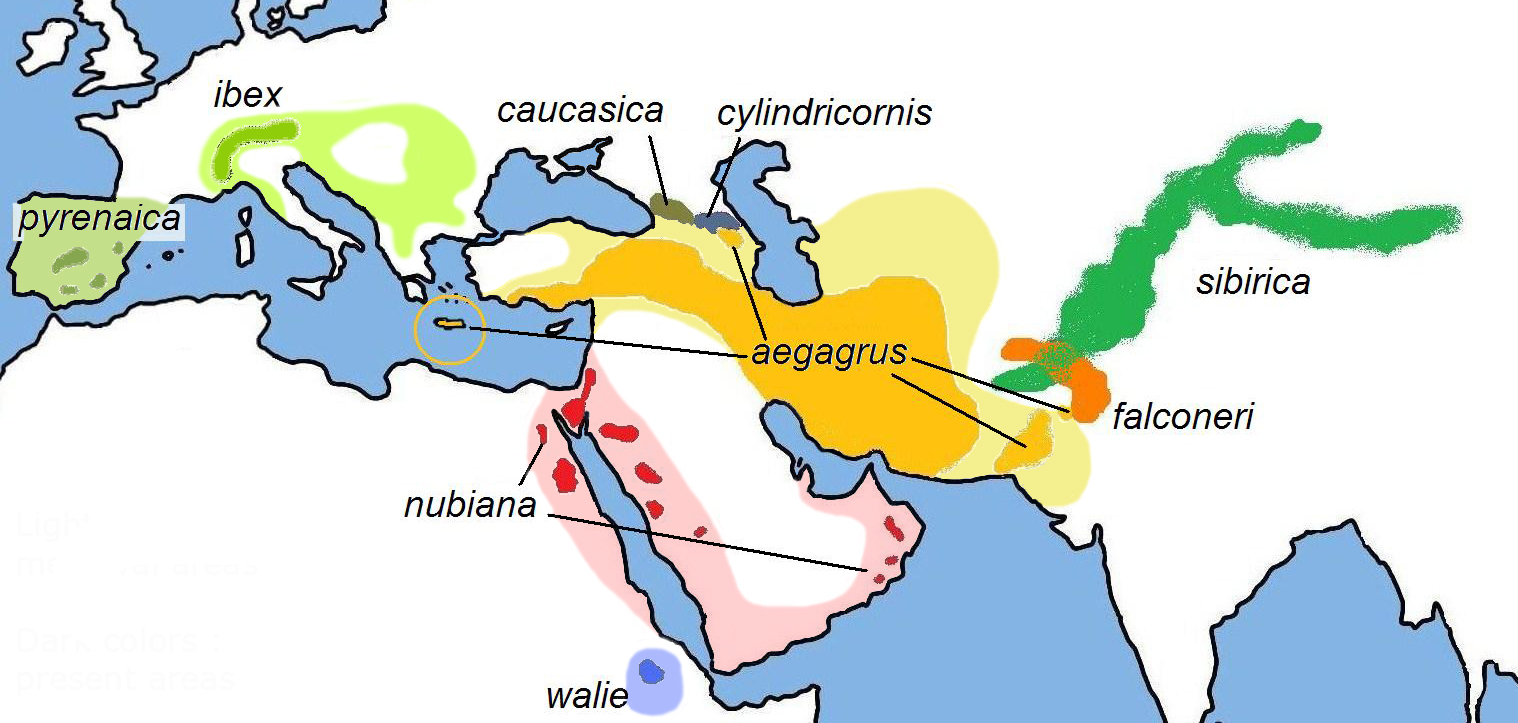 Range map of the Capra species (larger lettering) From top left to bottom right: Capra pyrenaica Capra ibex Capra caucasica Capra cylindricornis = Capra caucasica cylindricornis Capra aegagrus = Capra hircus aegagrus Capra nubiana Capra walie Capra falconeri Capra sibirica